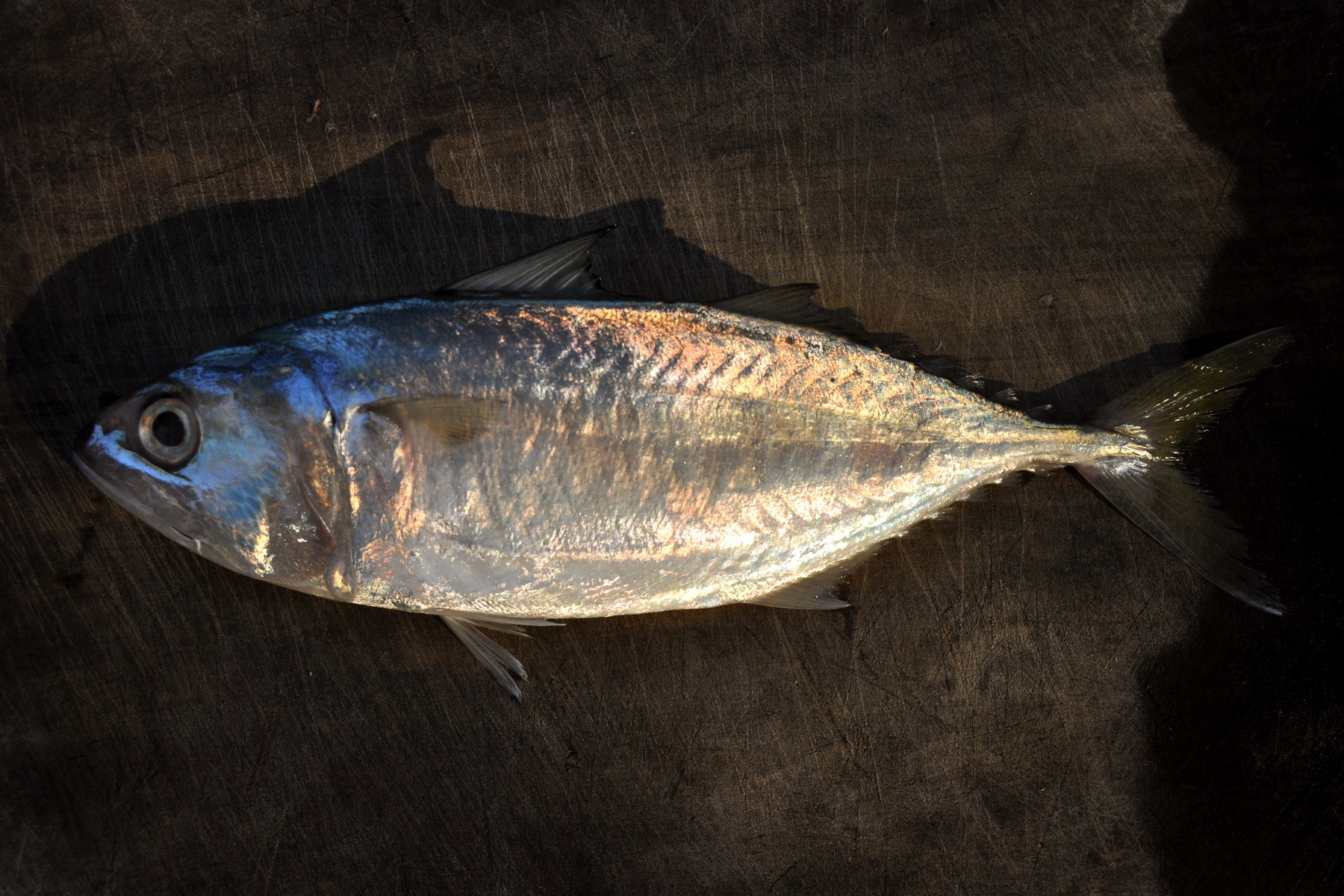 Short mackerel Rastrelliger brachysoma, 165 mm fork length. From Jakarta, Indonesia.